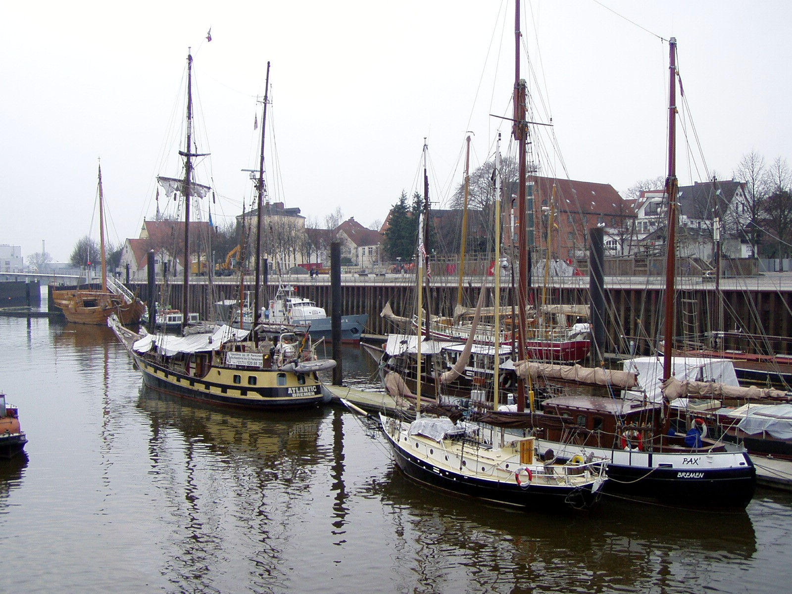 Bremen-Vegesack, Part of the City Bremen, Germany